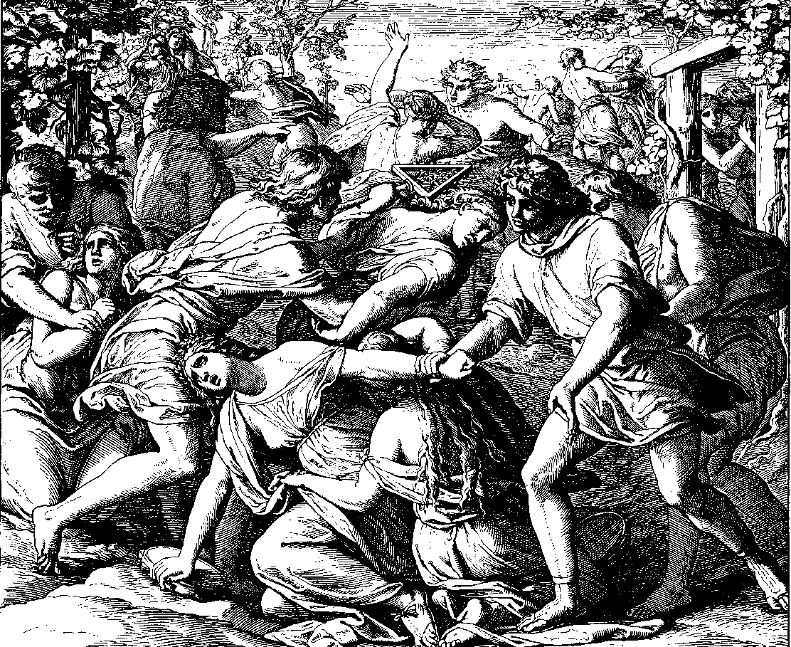 Woodcut for "Die Bibel in Bildern", 1860.